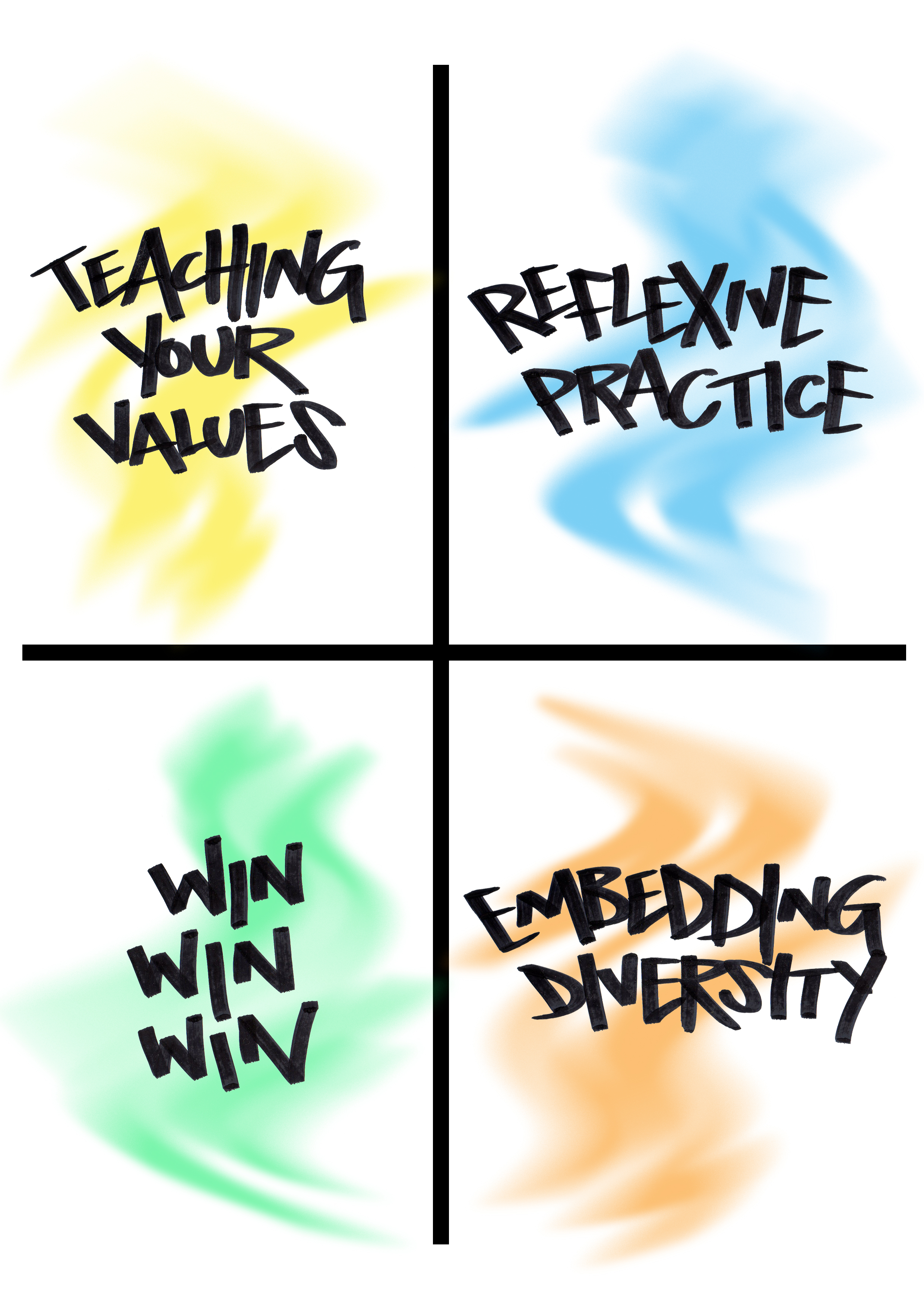 Four corners displaying the following principles of Social Purpose Education: Teaching (to) Your Values, Reflexive Practice, Win/Win/Win, Embedding Diversity. Artwork by @davegraffitiyw